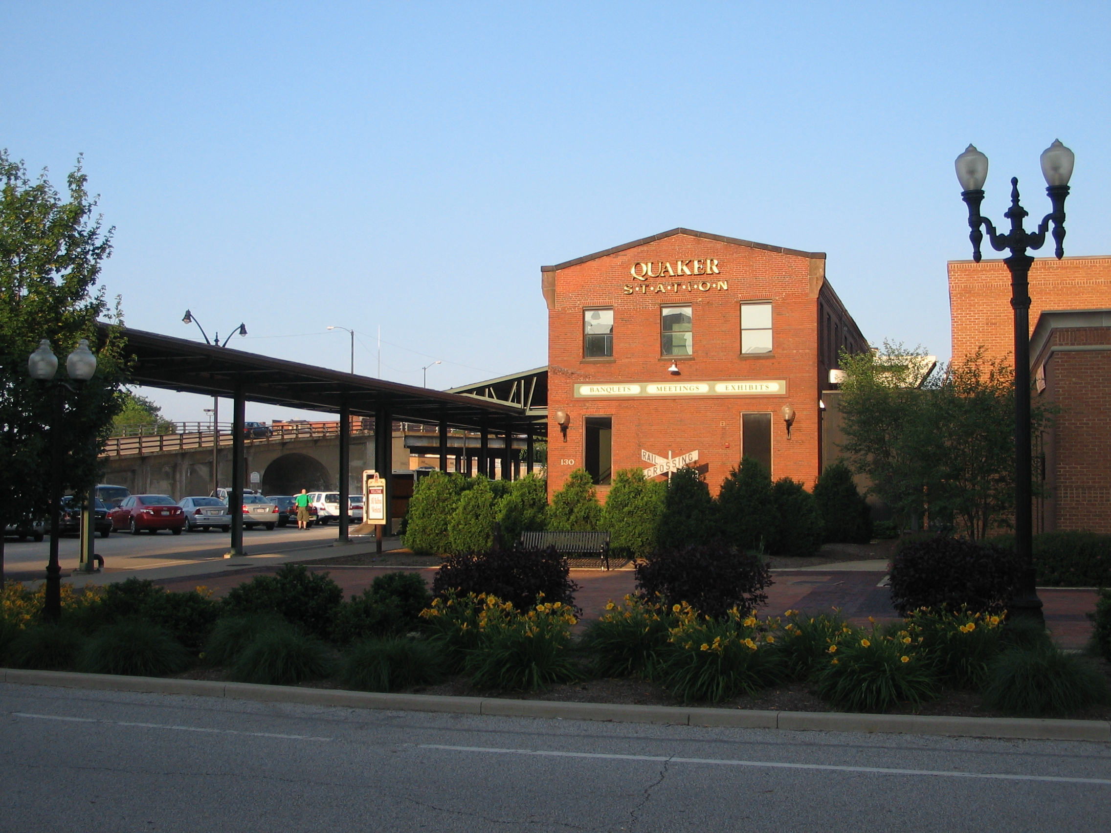 Quaker Station - formerly a Railway Express Agency freight building - in Quaker Square, Akron, Ohio